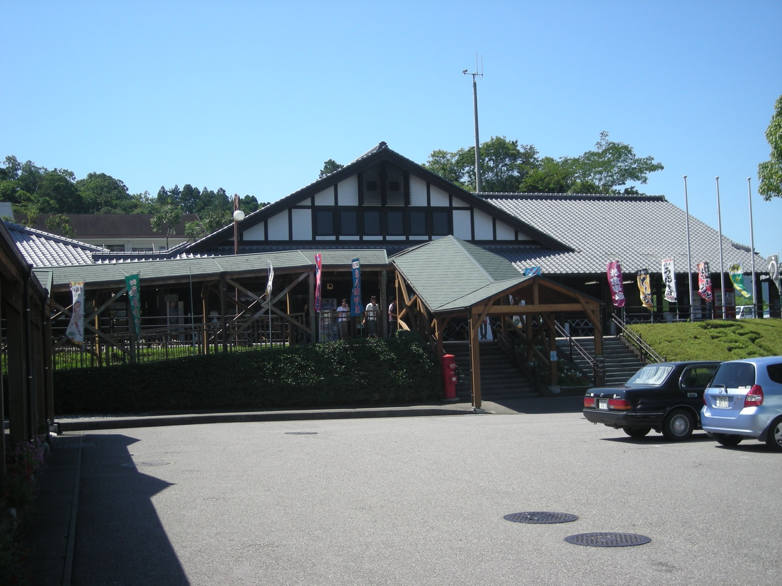 Michinoeki (Roadside Station) Kitagawahayuma in Nobeoka City, Miyazaki Prefecture, Japan